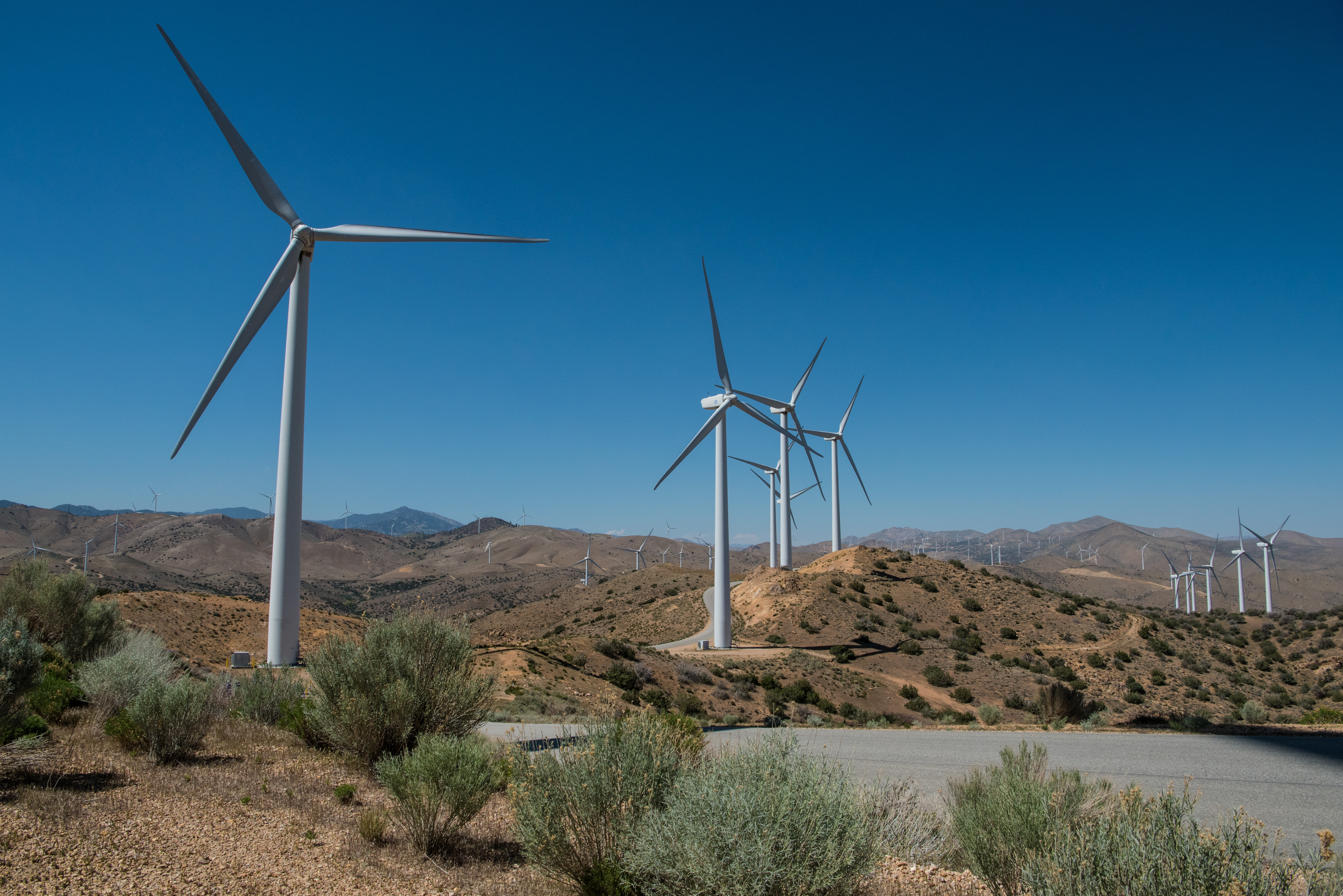 April 26 , 2018 - Pine Tree Wind and Solar Farm is part of NREL's 100% Renewable Energy Study. (Photo by Dennis Schroeder / NREL)